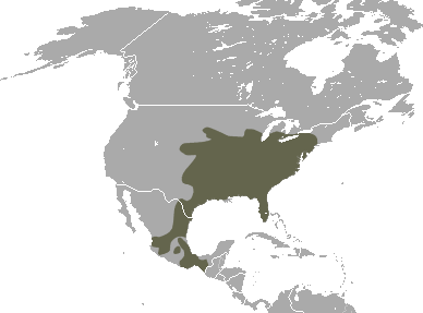 North American Least Shrew (Cryptotis parva) range